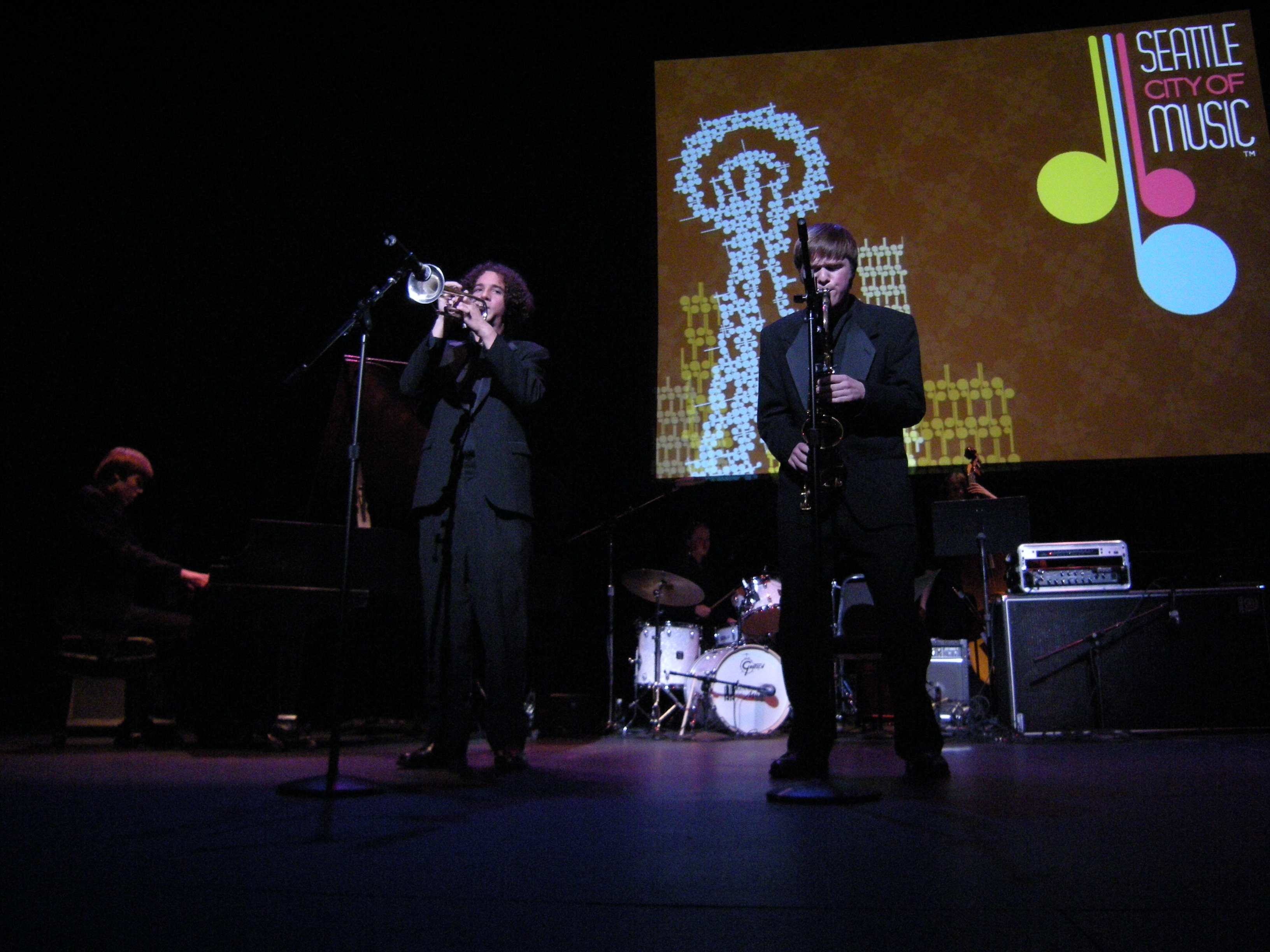 Garfield High School Jazz Quintet performing at the launch of "Seattle, City of Music", Paramount Theater, Seattle, Washington.